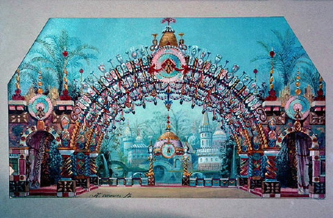 circa 1892